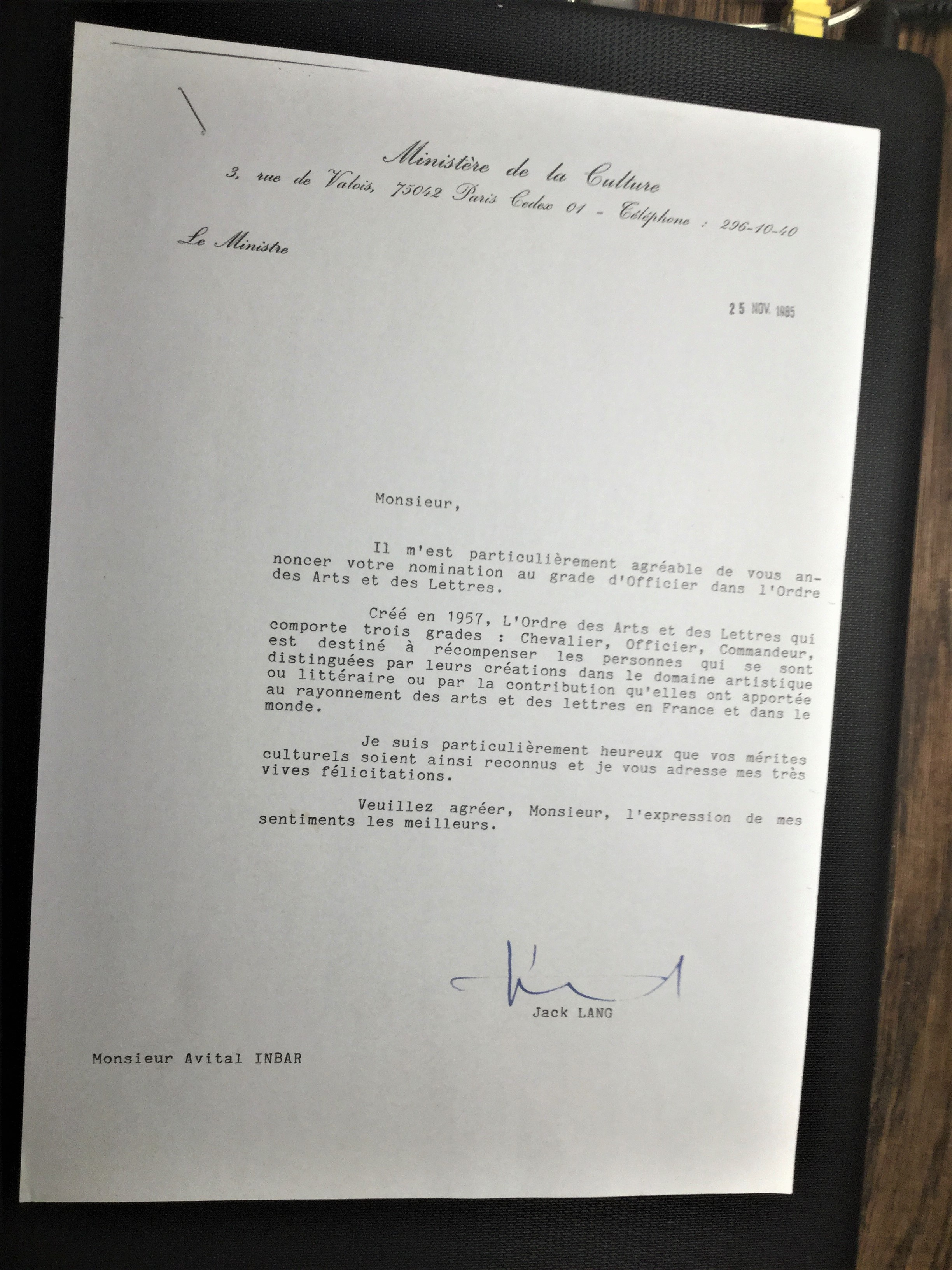 Ordre des Arts et des Lettres award letter, 25 November, 1985